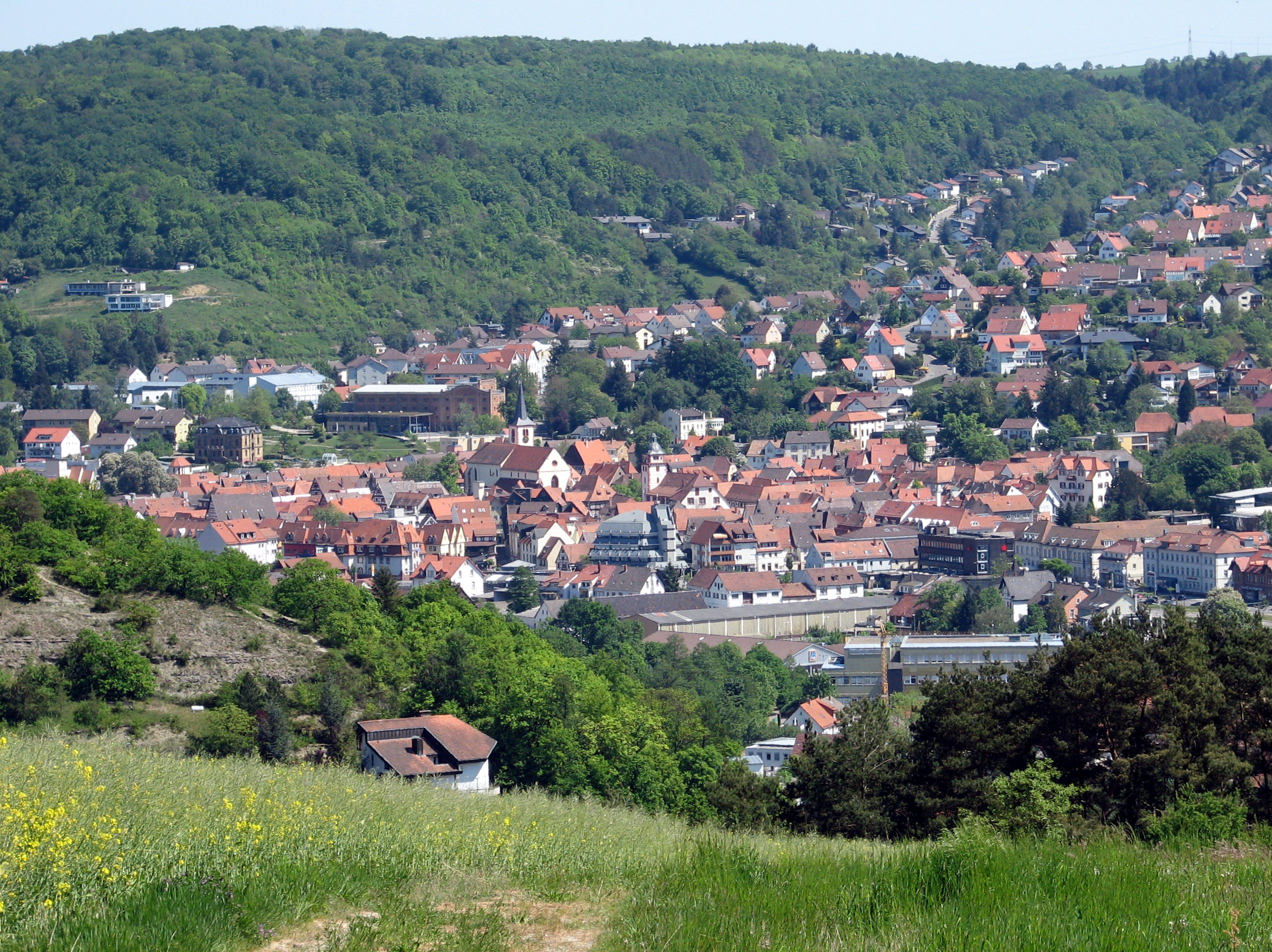 View from Hamberg on Mosbach